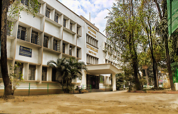 Cotton College was declared open on May 27, 1901 by Sir Henry Stedman Cotton, K.C.S.I., the then-chief commissioner of the erstwhile British province of Assam. The college was named after Sir Henry, as "Cotton College", in appreciation of his genuine concern for the cause of higher education in the province. The college was started with five professors, which included Frederick William Sudmerson, the first principal of the college, and 39 students.